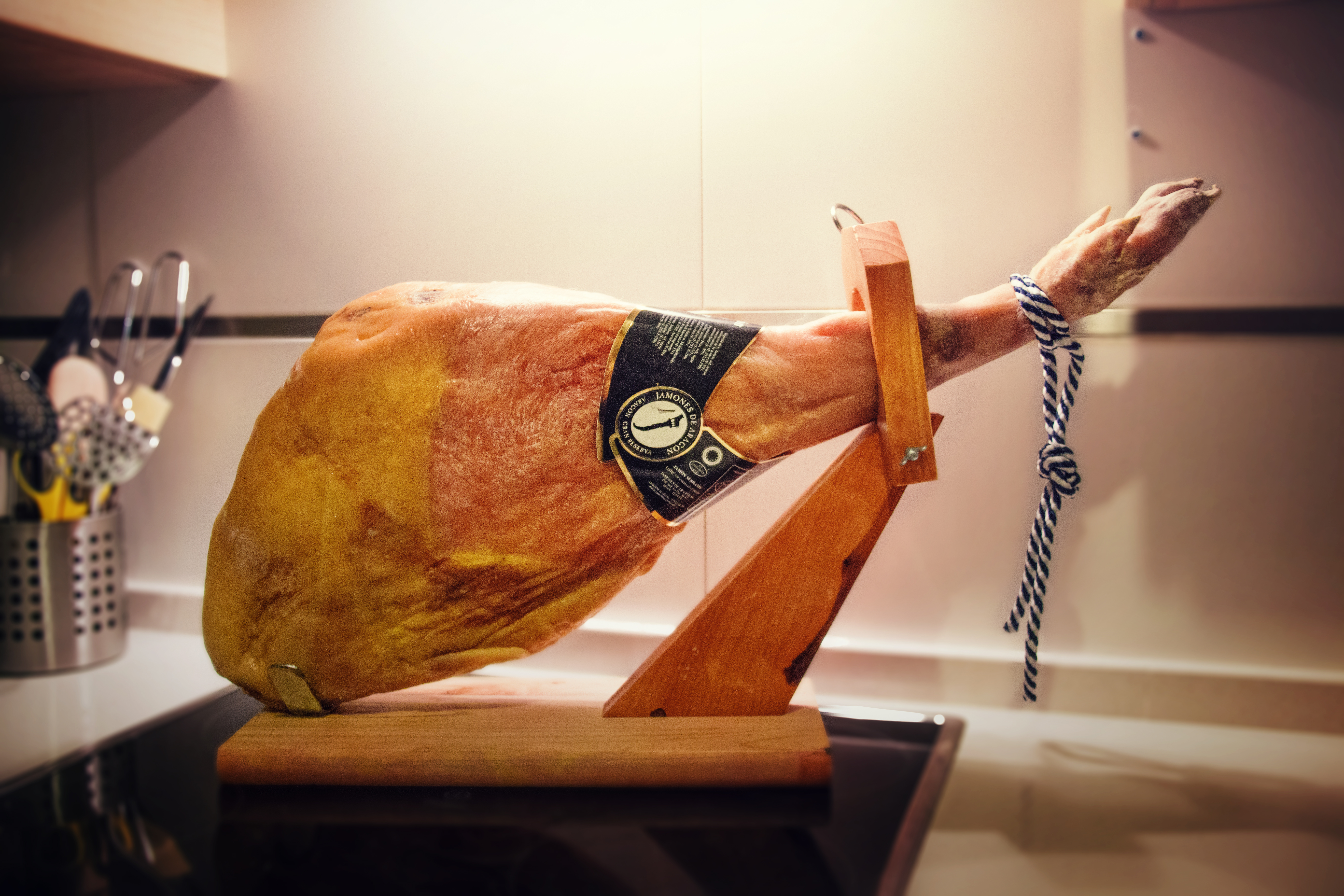 Un jamón en una jamonera.